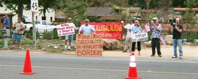 Members of Save Our State protesting a day labor center in Laguna Beach, California, September 25, 2005.